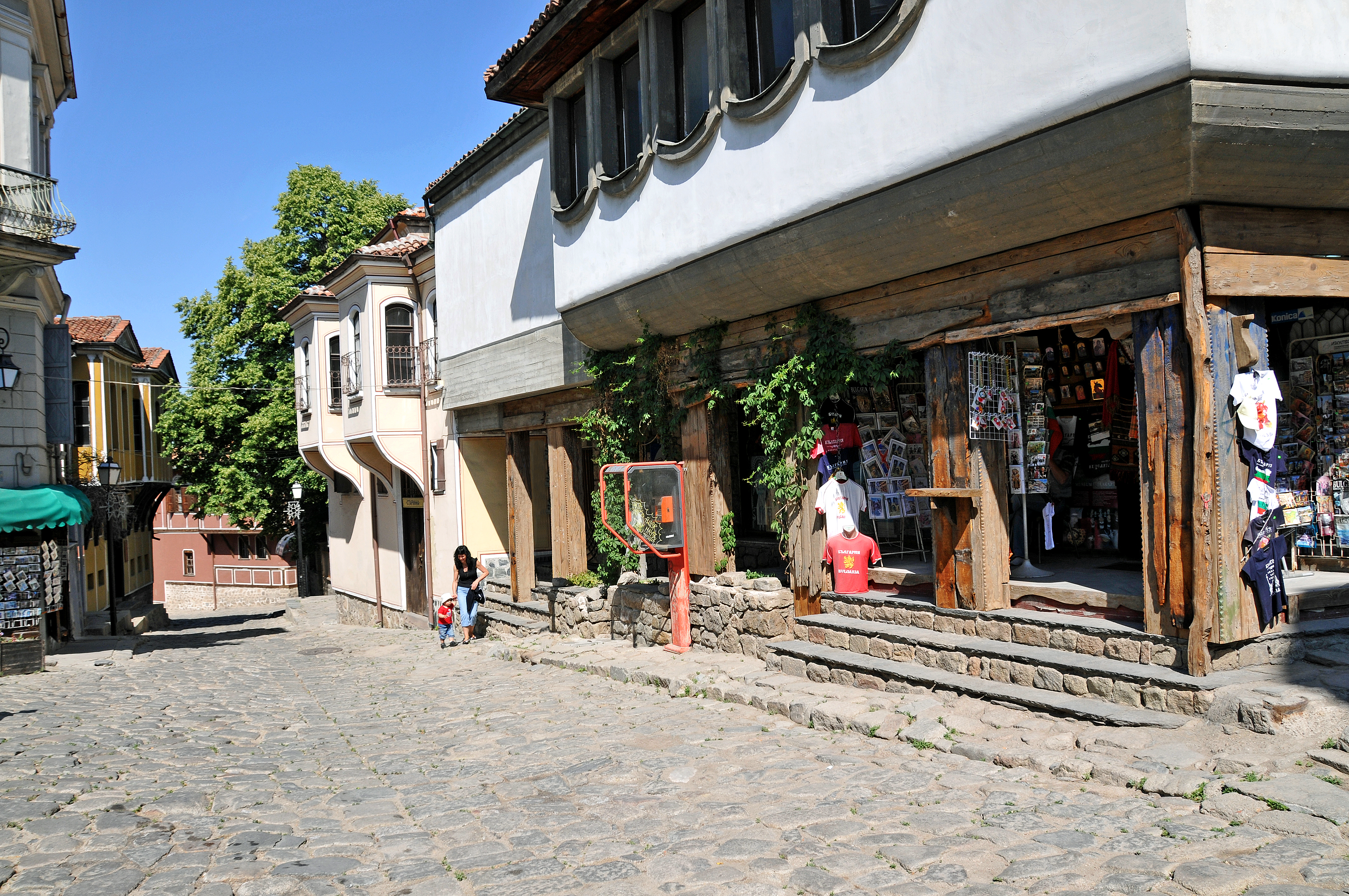 PLEASE, no multi invitations, glitters or self promotion in your comments, THEY WILL BE DELETED. My photos are FREE for anyone to use, just give me credit and it would be nice if you let me know, thanks - NONE OF MY PICTURES ARE HDR. A place to shop in the Old Town of Plovdiv, we didn't have time to even look. Love the old streets of stone but not great to walk on.